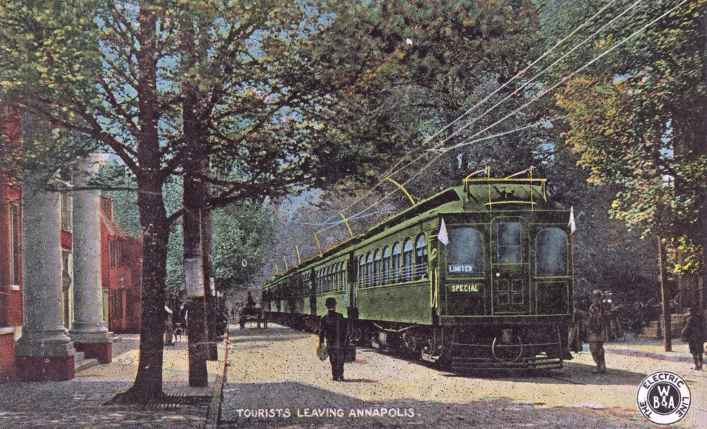 Postcard advertising excursions offered by the Washington, Baltimore and Annapolis Electric Railway (WB&A) electric interurban railroad between Annapolis and Washington, DC. Shown is a 6-car excursion extra about to depart Annapolis in 1910.